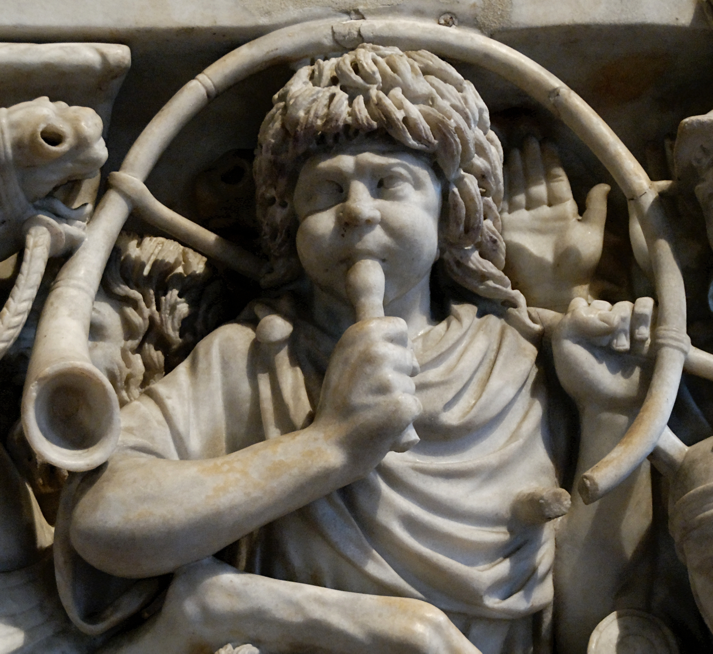 African soldier playing the cornu (curved trumpet). Detail of the so-called “Grande Ludovisi” sarcophagus, with battle scene between Roman soldiers and Germans. Proconnesian marble, Roman artwork, ca. 251/252 CE. Found in 1621 near the Tiburtina Gate in Rome.